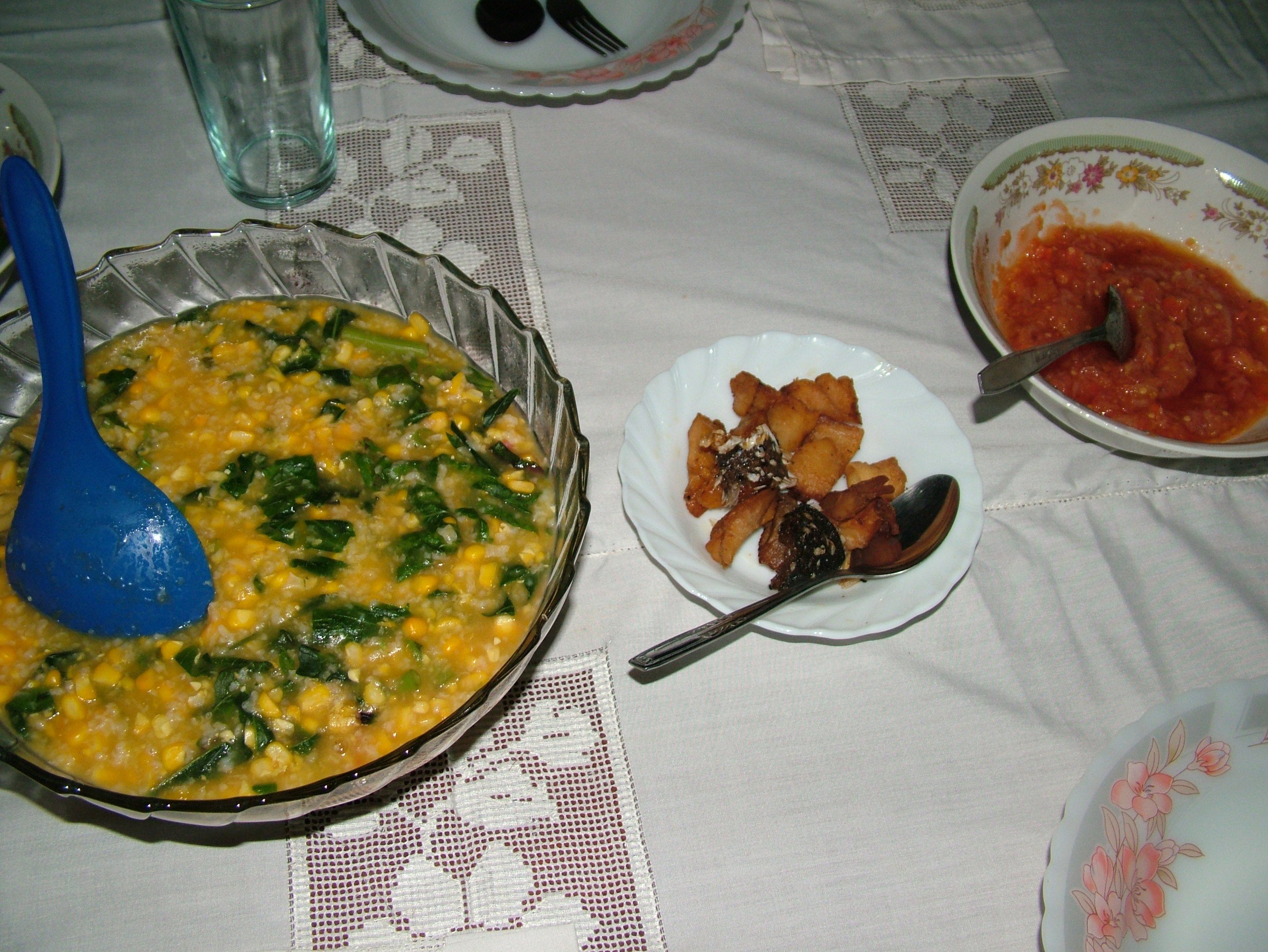 Tinutuan, corn-squash-vegetable stew, with salted dried fish to add a bit of extra flavor. And sambal, of course.